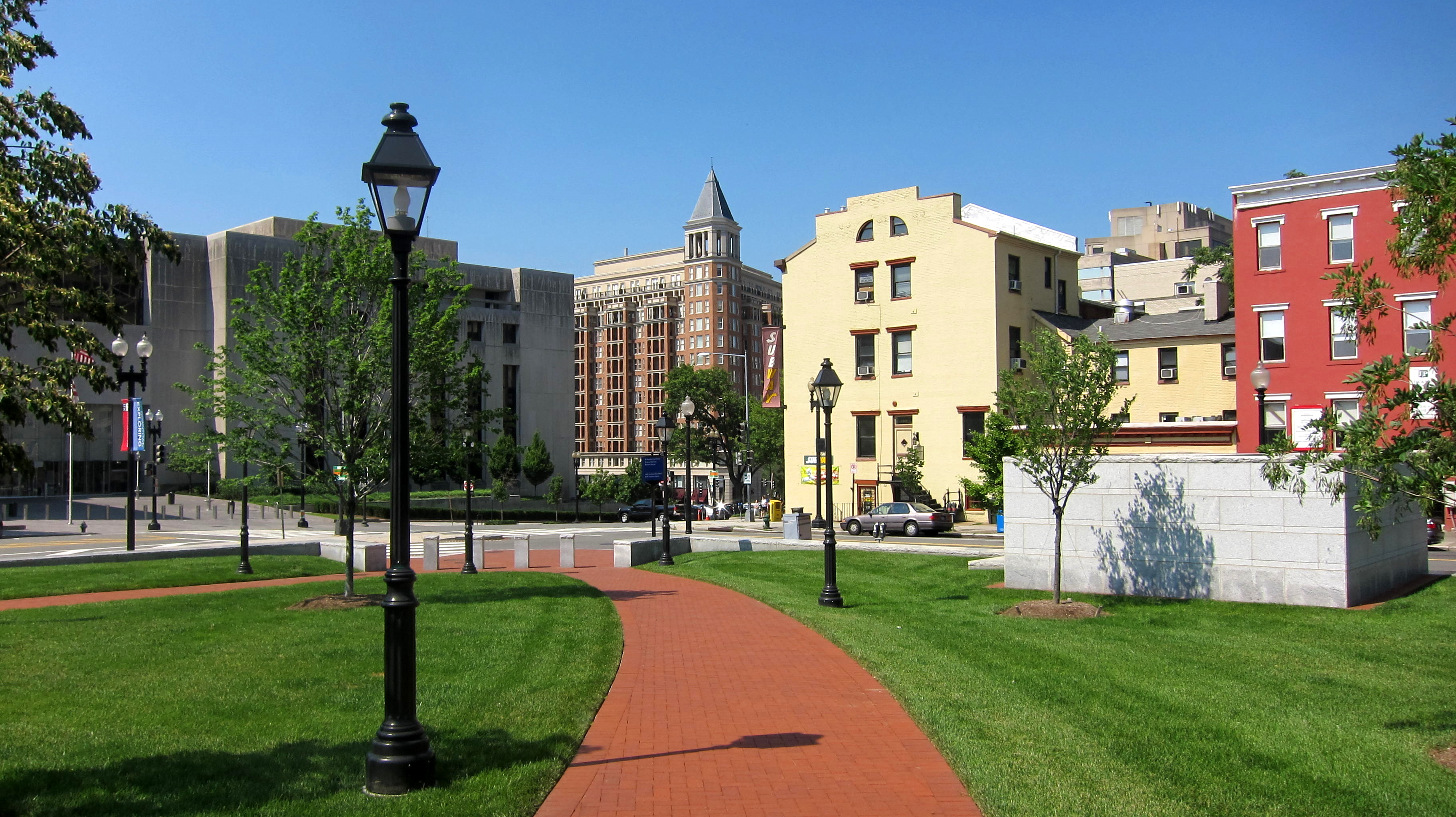 A sidewalk in Judiciary Square, Washington, D.C.